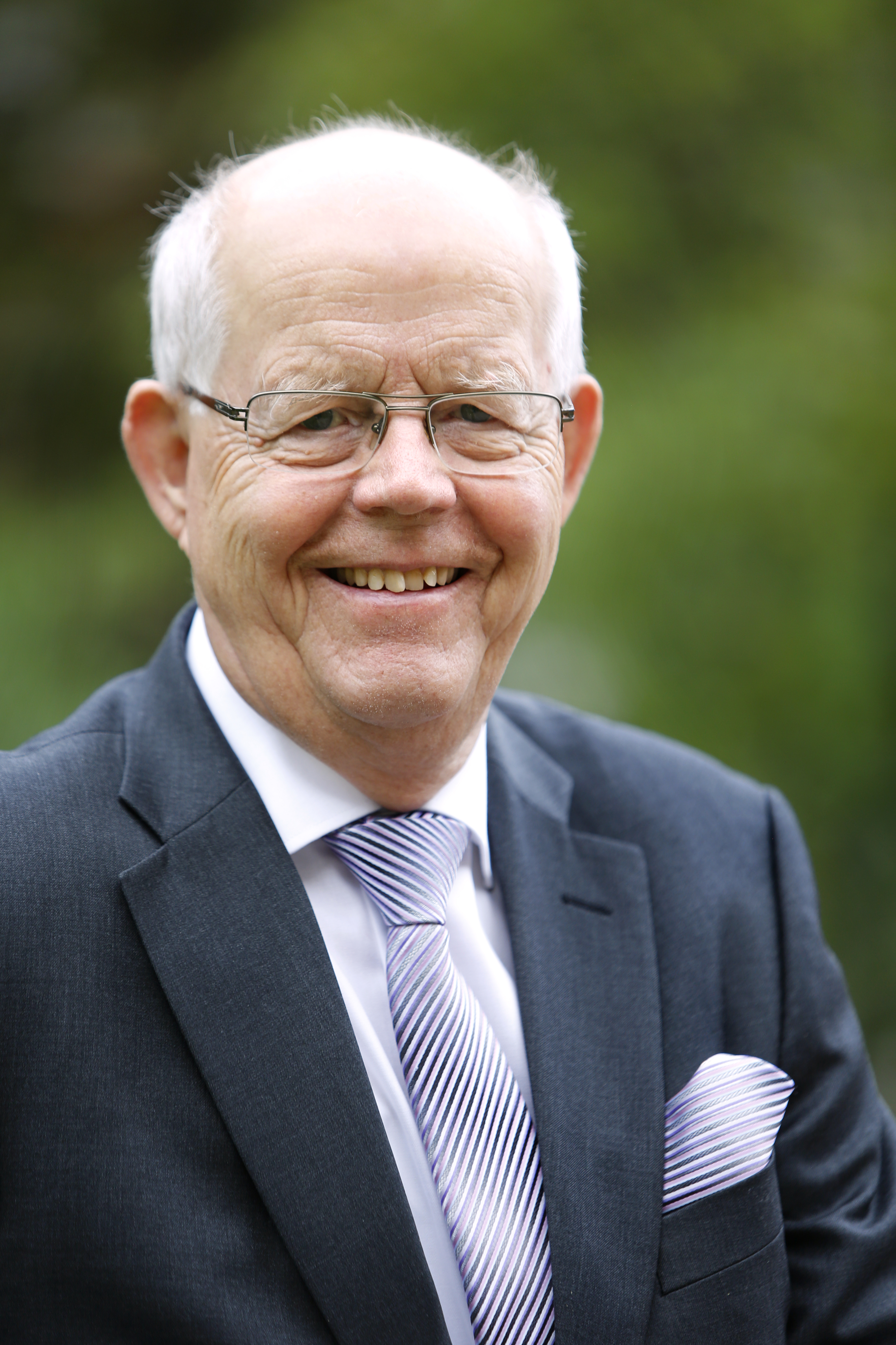 Gustav Björkstrand, Professor Emeritus of Åbo Akademi University, Oslo 08.10.2015. Photo: NordForsk/Terje Heiestad.